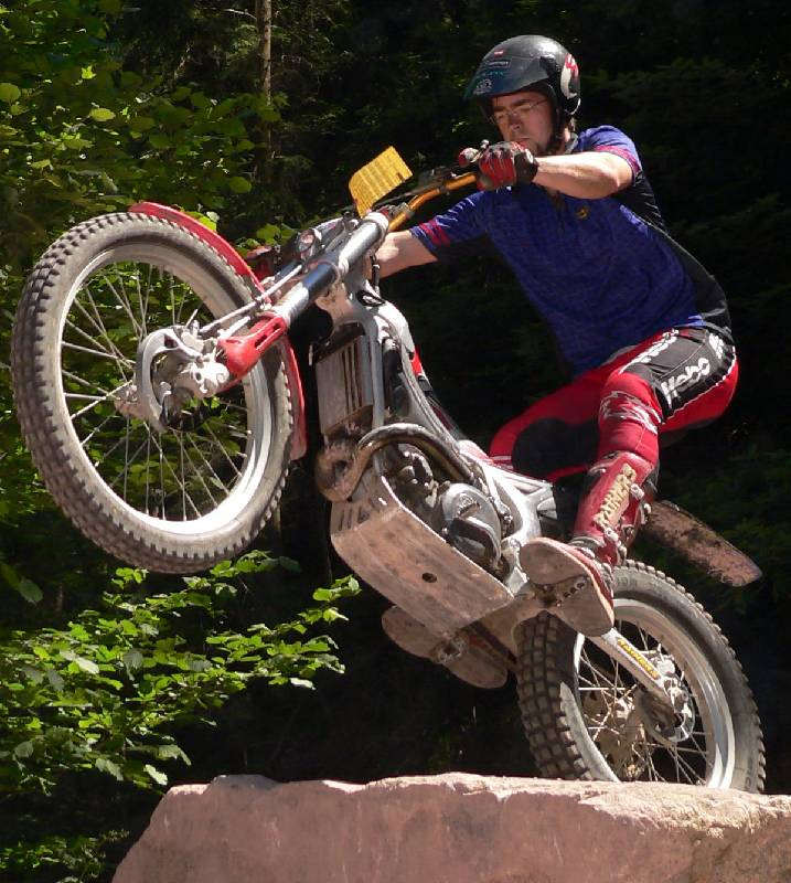 Observed trials rider Fabian Werner with his Beta Rev 3 2000 in Hornberg, Black Forest, Germany